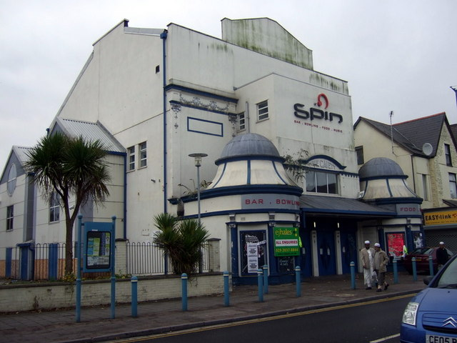 The Gaiety Cinema, 195-197 City Road. The Gaiety Grand Cinema opened in 1912, originally with a seating capacity of 800. The most notable feature of the facade is a pair of small domes on either side of the entrance. It was re-modelled and enlarged in 1934 by architect William S. Wort and the seating capacity increased to 1,518. In the 60's it became bowling alley and then a bingo hall, now it stands shabby and forlorn awaiting a new buyer. To see it in its glory days